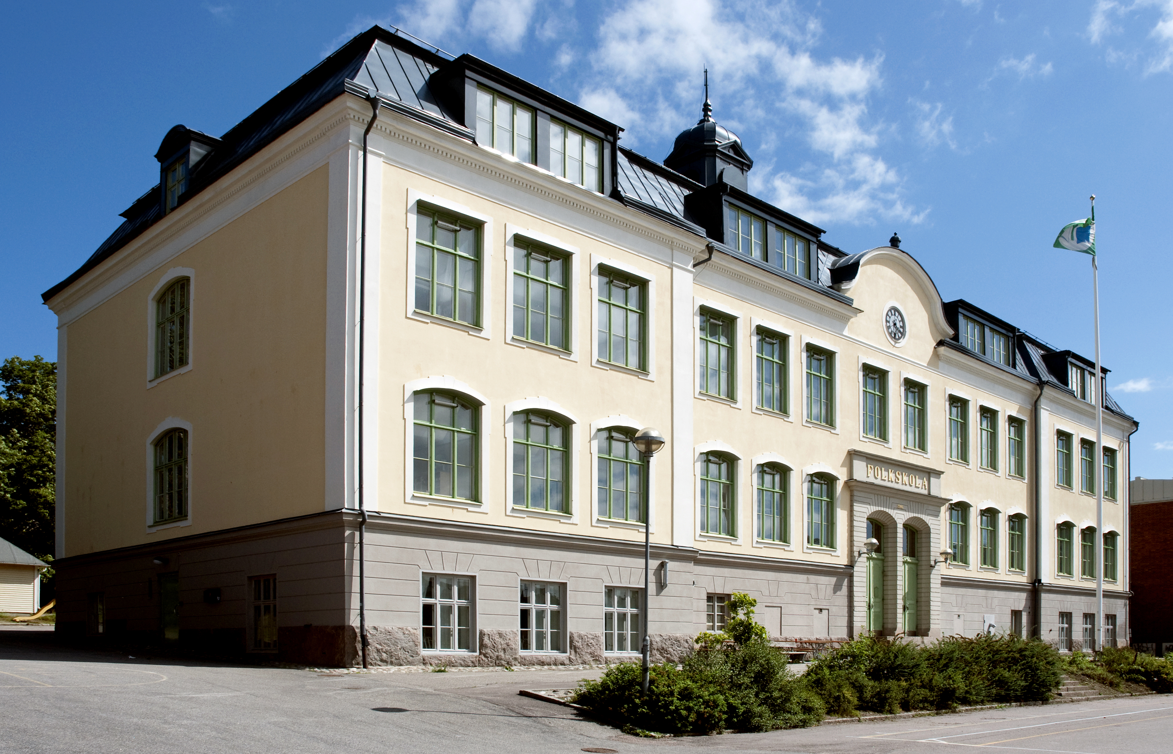 Östra skolan of Nyköping.